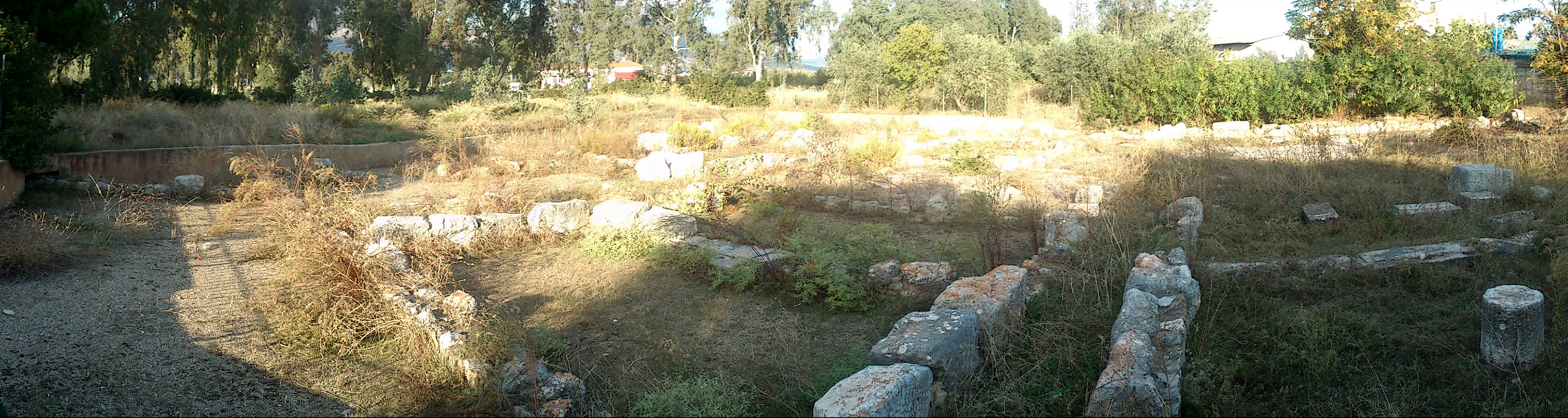 Naos Isidos